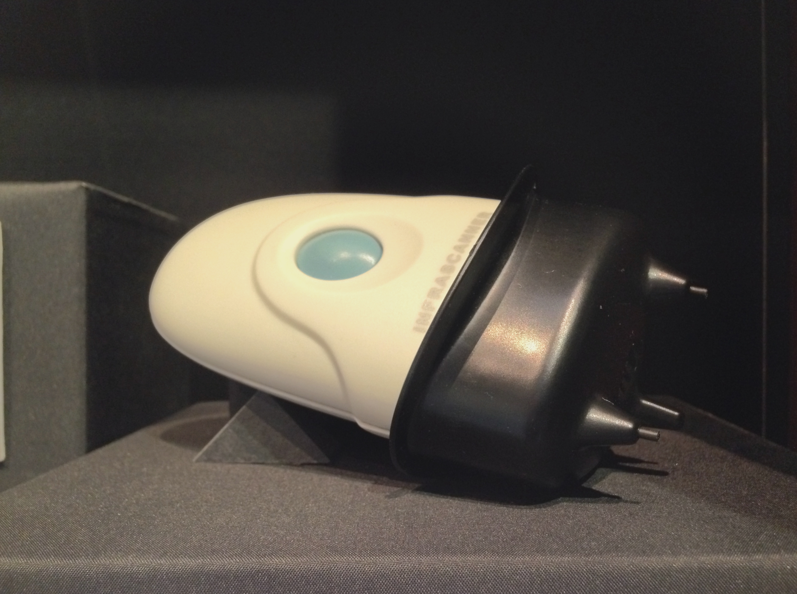 Infrascanner 1000, a Near Infrared Spectroscopy (NIRS) device to detect intracranial bleeding. This is part of the collections of the National Museum of Health and Medicine.